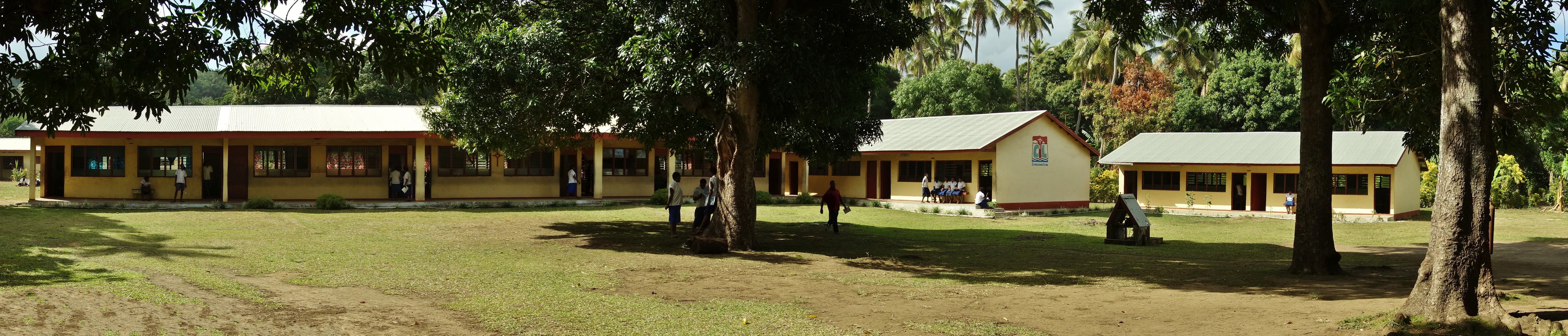 View on classrooms of the Collège Technique et Lycée de Lowanatom